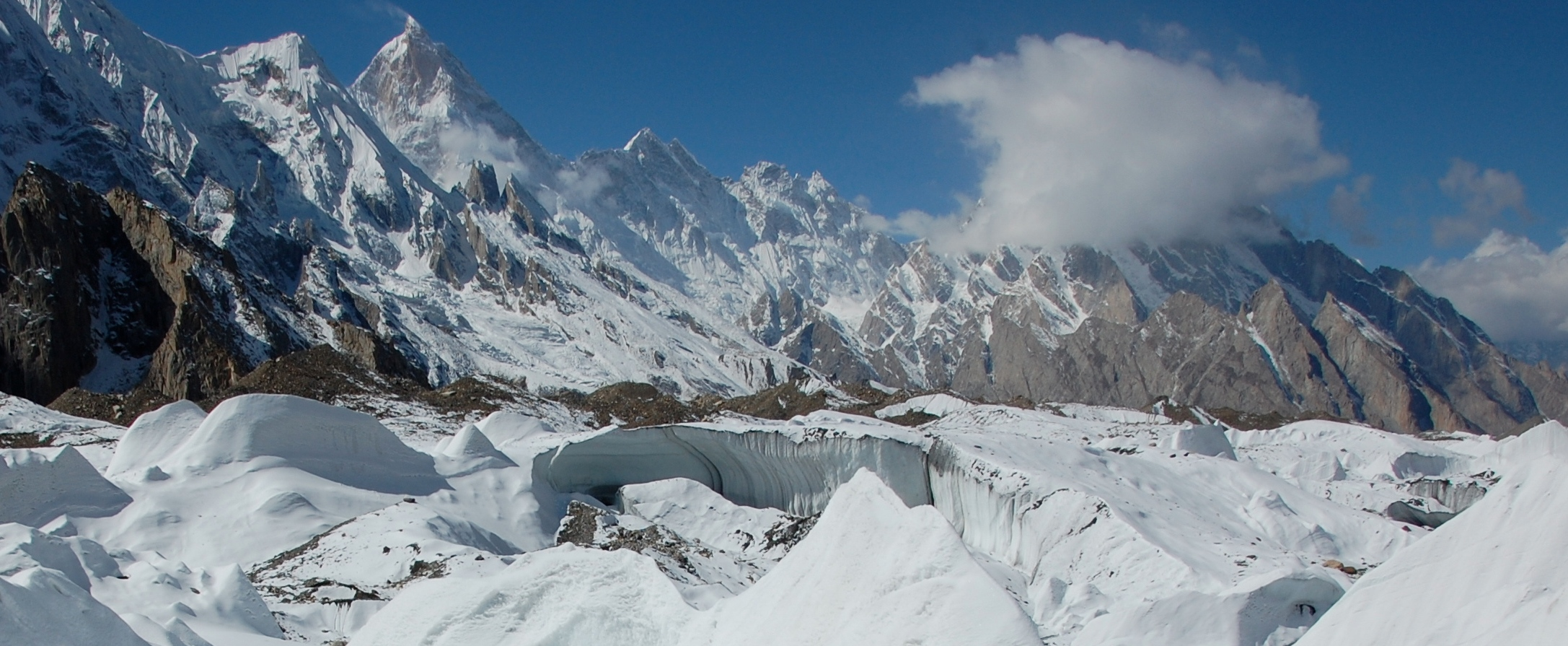 Masherbrum as seen from Baltoro glacier looking west